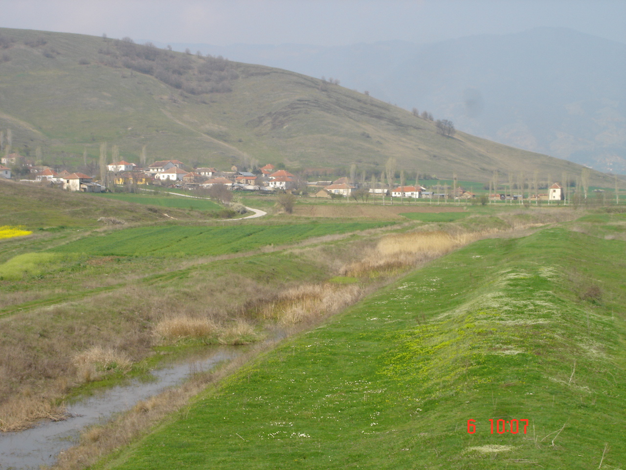 View of the village of Novoselani, in Mogila Municipality near Bitola, Macedonia